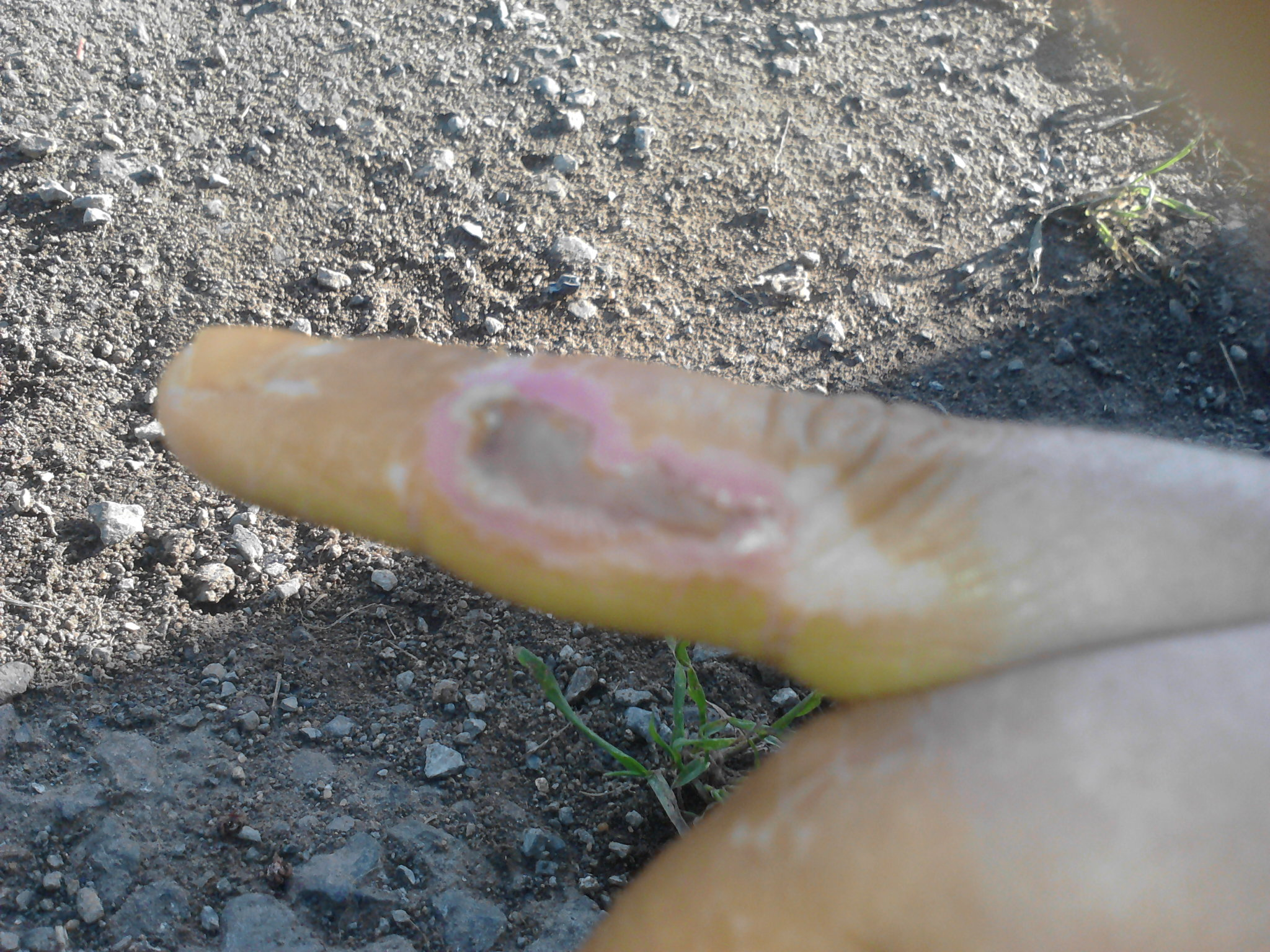 Chemical burns of first and second degree caused by nitric acid in two fingers of a hand.